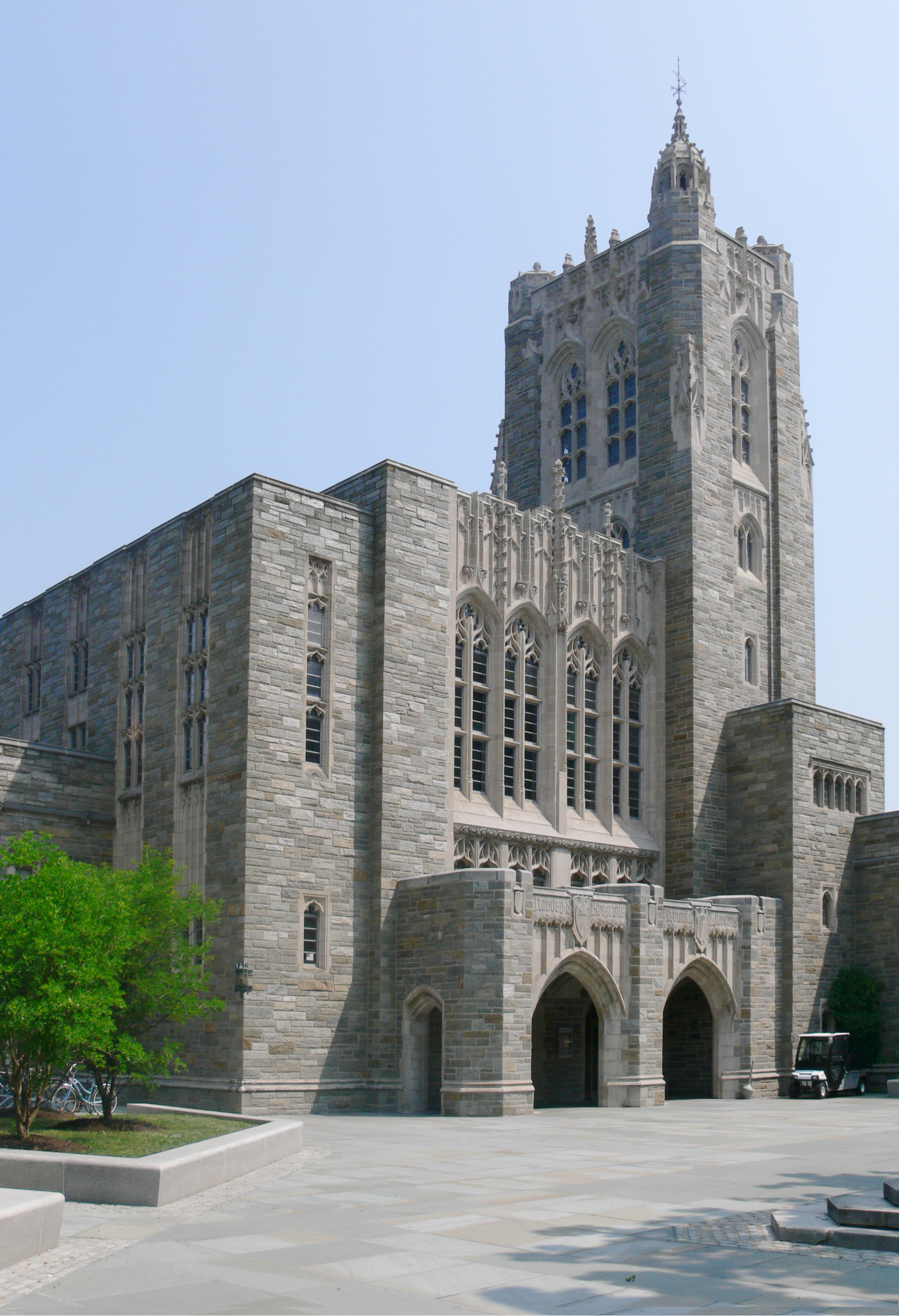 Harvey S. Firestone Memorial Library (main building of Princeton University Library) Princeton University; Princeton, NJ